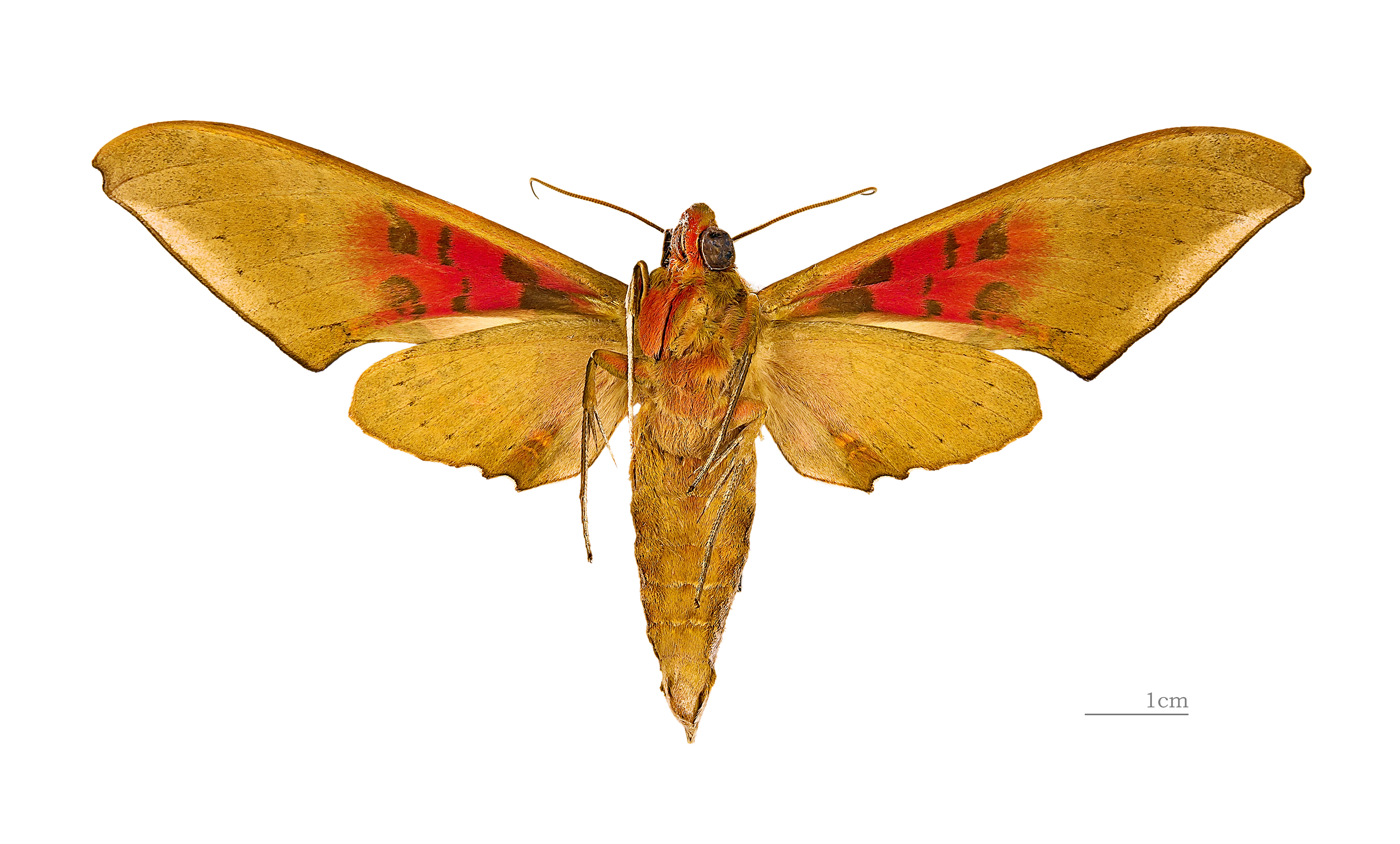 Adhemarius gannascus - △ Ventral side